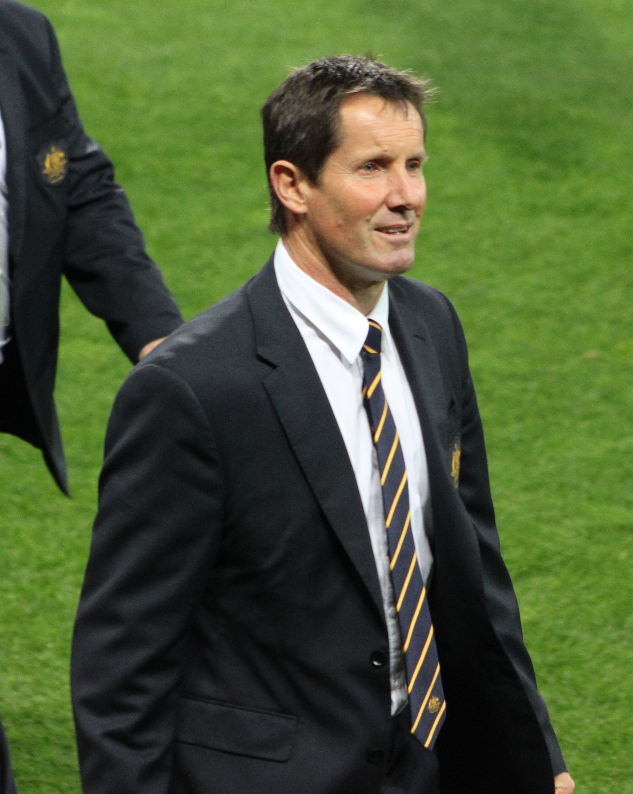 New Zealand former rugby player and curent coach Robbie Deans before 2011 Rugby World Cup match between Australia and USA.